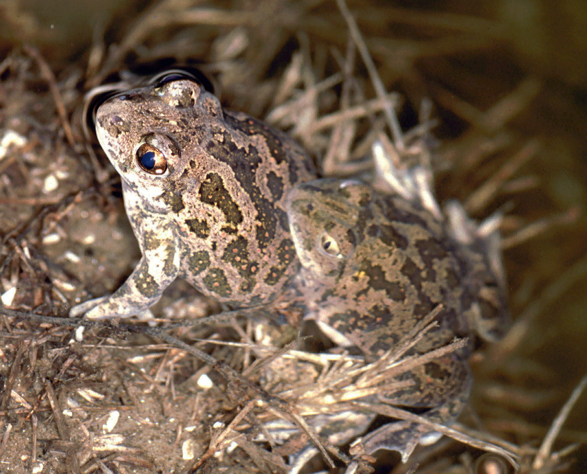 Male and female of Pelobates syriacus in amplexus. The male clasps the female before her hind legs (Amplexus lumbalis).